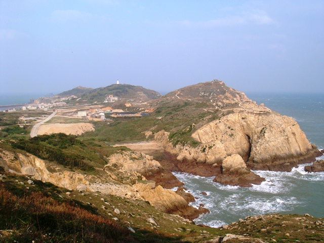 Dongju Island, seen from the hillside to the northeast, Dongju.